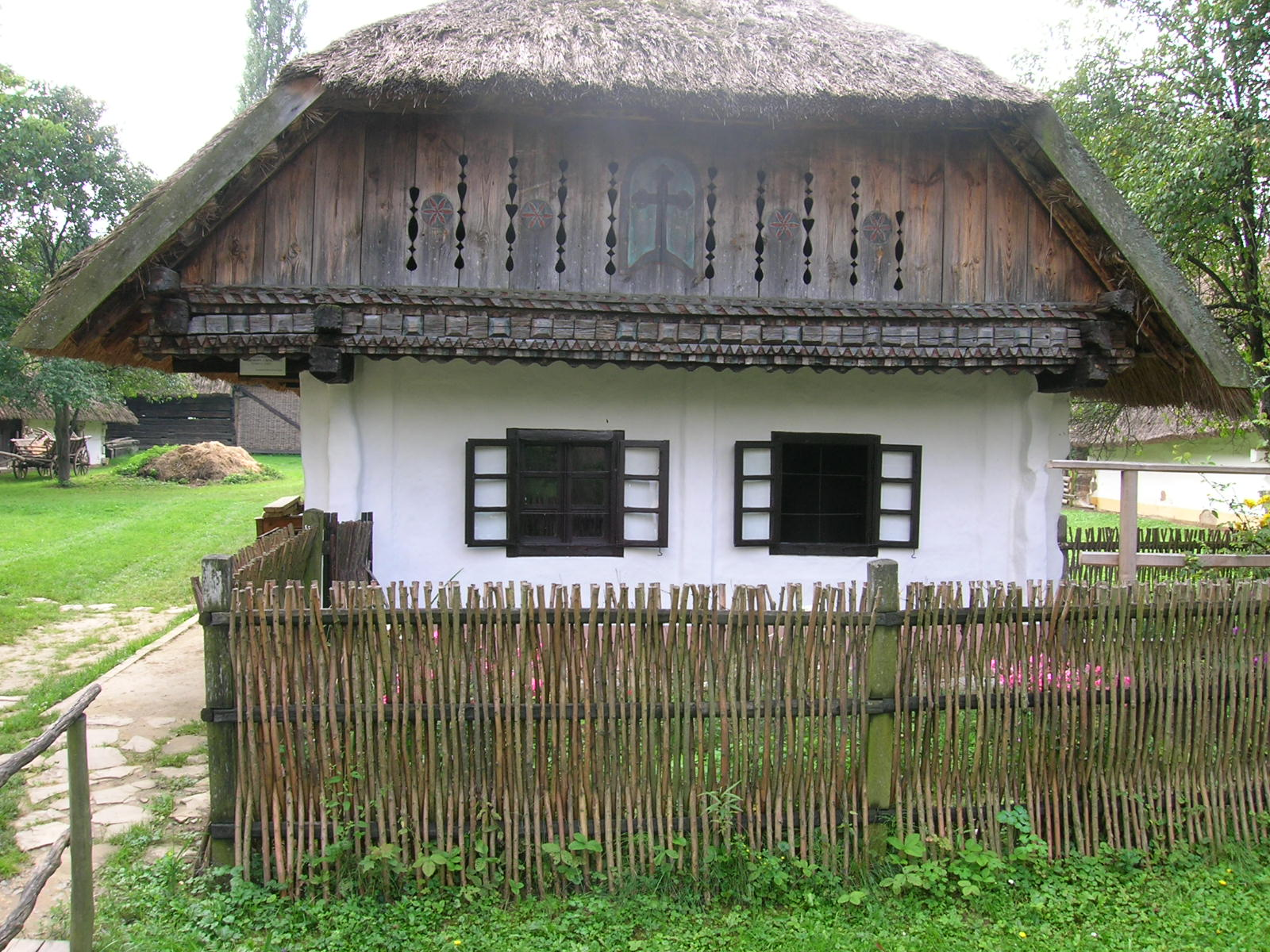 Old peasant home. Göcsej Village Museum, Zalaegerszeg, Hungary.